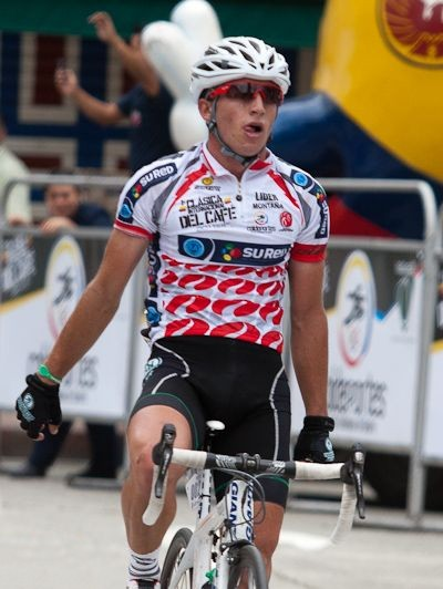 Sergio Luis Henao wins the second stage of the International Coffee Classic 2011 with the Government of Antioquia team